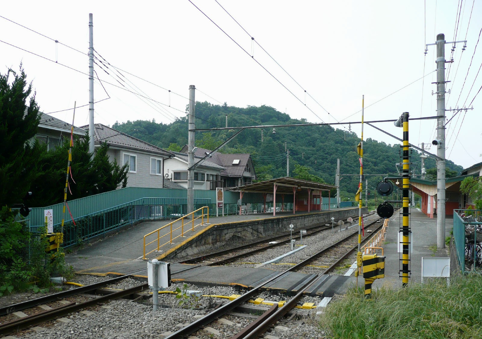 Yamuramachi Station platform